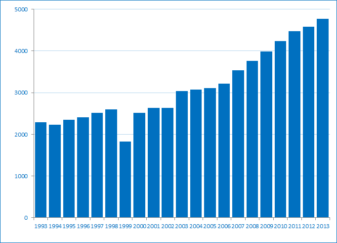 Number of swimming pools in Russia, at the end of each year from 1993 to 2013.